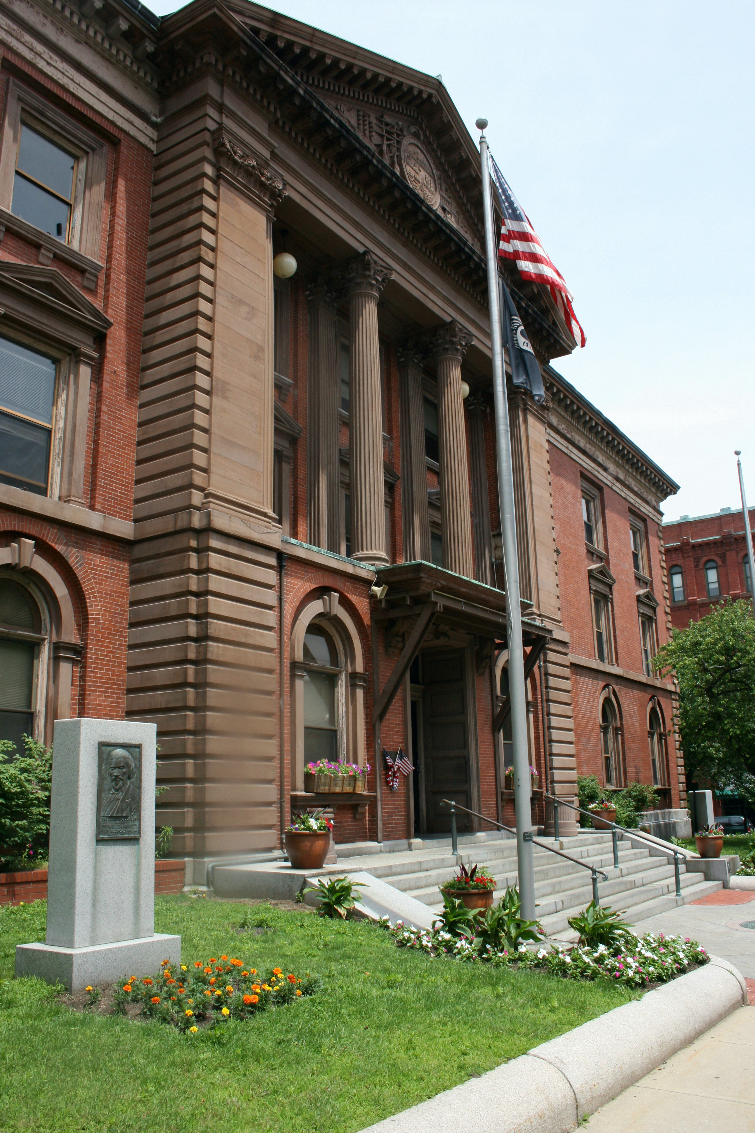 New Bedfod MA City Hall